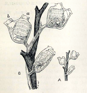 Perophora listeri Wiegman, 1835; A. slighly magnified; b. further magnified; ascidiozooids in right, left and lateral aspects; aà branchial orifice b) atrial orifice